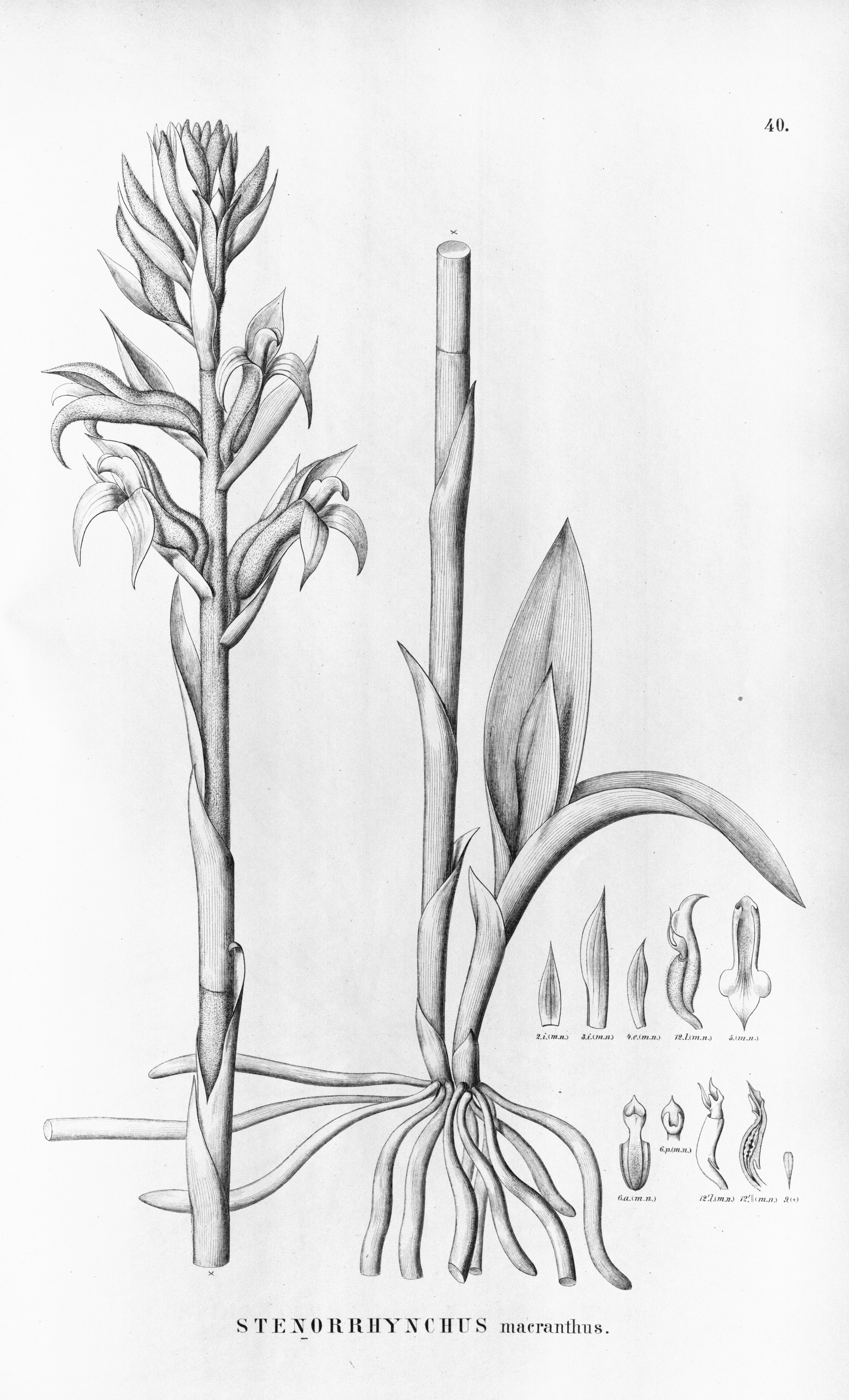 Illustration of Pteroglossa macrantha (as syn. Stenorrhynchos macranthum, spelled by Cogniaux as Stenorrhynchus macranthus)